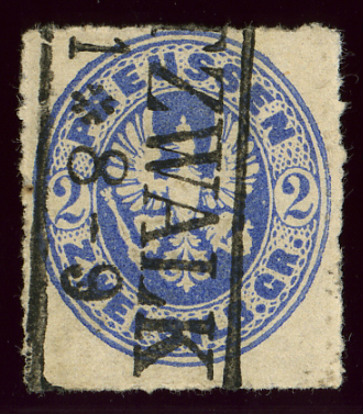 Stamp of Prussia, 2 Silbergroschen, issue 1861, framed cancelled PRITZWALK (Brandenburg).